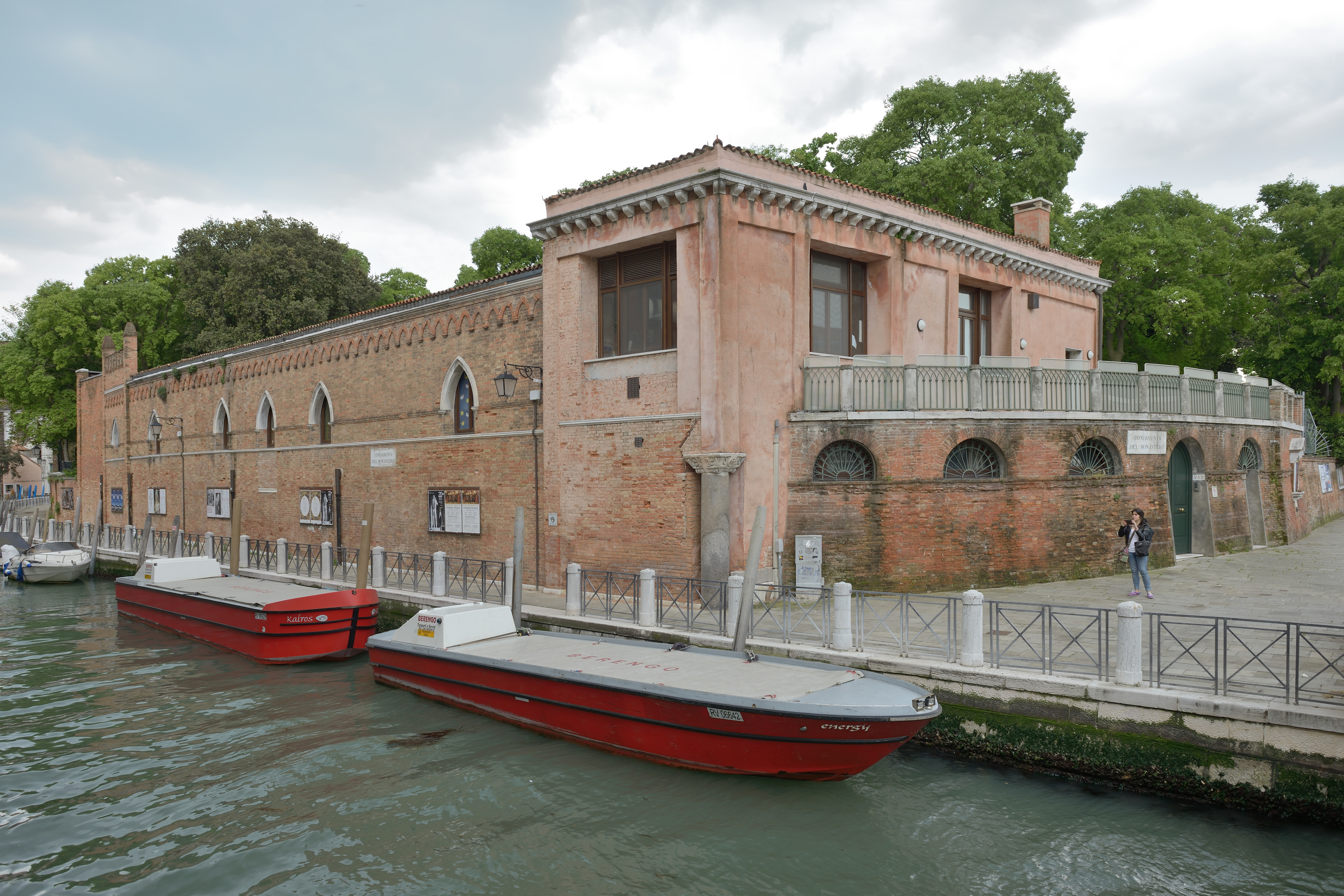 Remnants of the Chiesa di Santa Croce church on the Grand Canal in Venice.